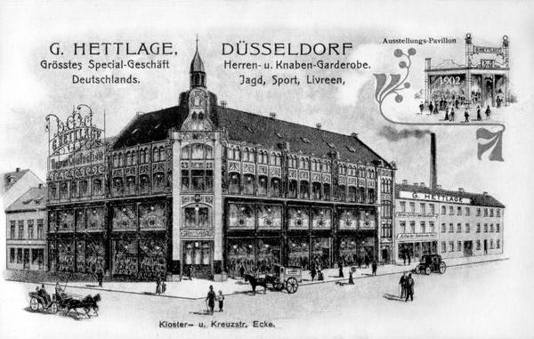 Warenhaus Hettlage an der Klosterstraße 39 – 41, Ecke Kreuzstraße 4 – 6 in Düsseldorf, erbaut 1894 von Architekt P. P. Fuchs, erweitert 1899 bis 1900 von Architekt Rottlender aus Köln.jpg